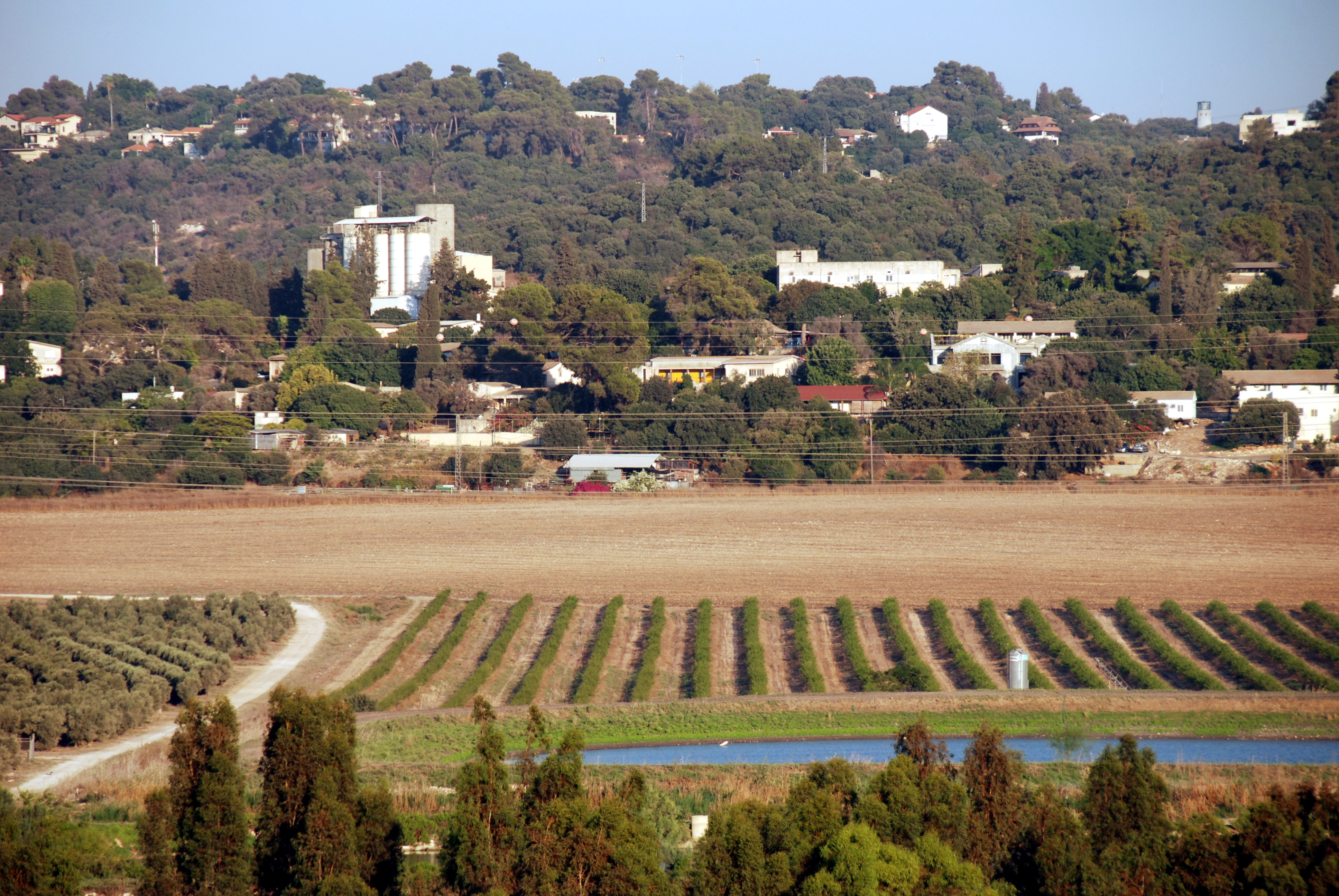 Shaar-Haamakim